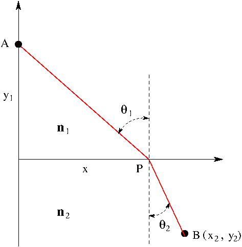 Refraction of light from Fermat's principle